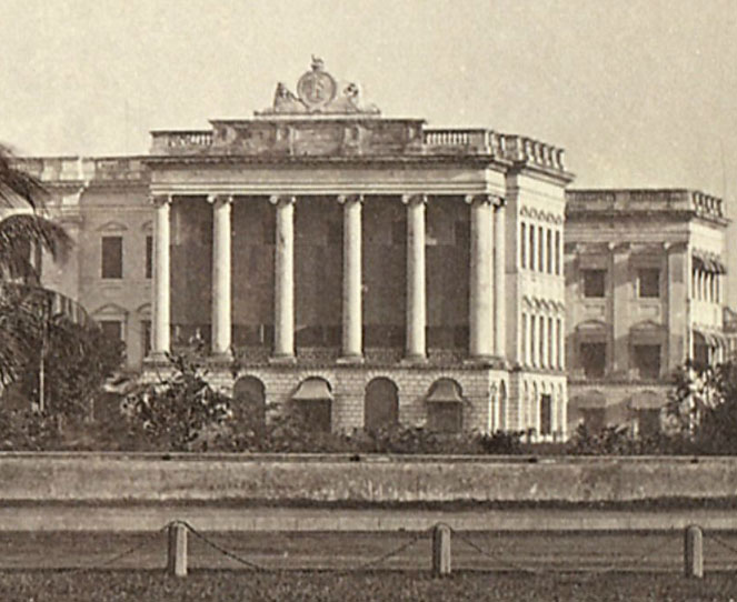 A view looking eastwards along Esplanade Row, with Richard Westmacott's statue of Sir William Cavendish-Bentinck, Governor-General of India from 1833-1835, in the foreground and the western entrance to Government House beyond. Government House, designed by Captain Charles Wyatt and built between 1799-1802, was the residence for the British Governors-General till 1911. Photographer: Samuel Bourne